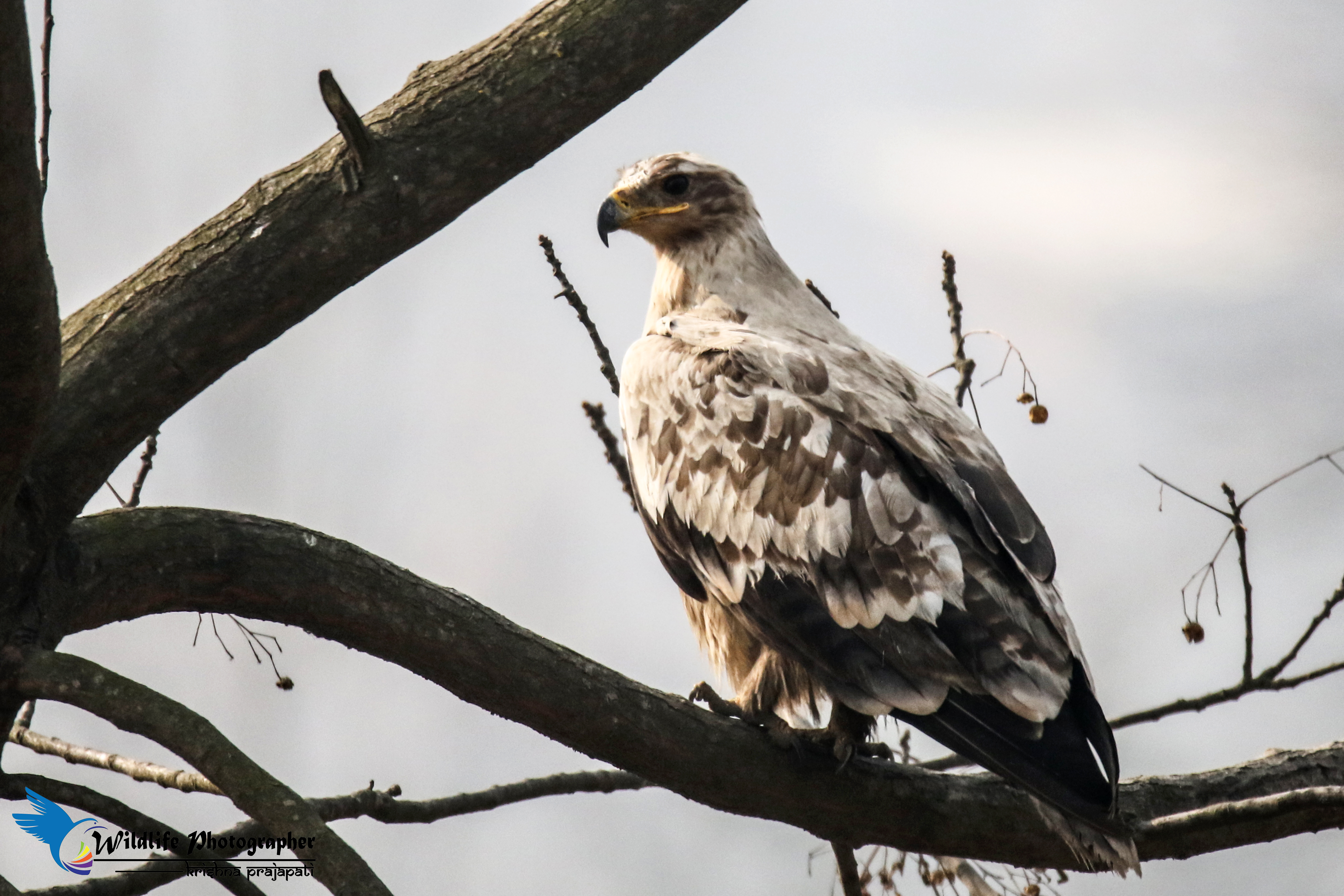 The steppe eagle (Aquila nipalensis), young bird at chovar area Nepal.